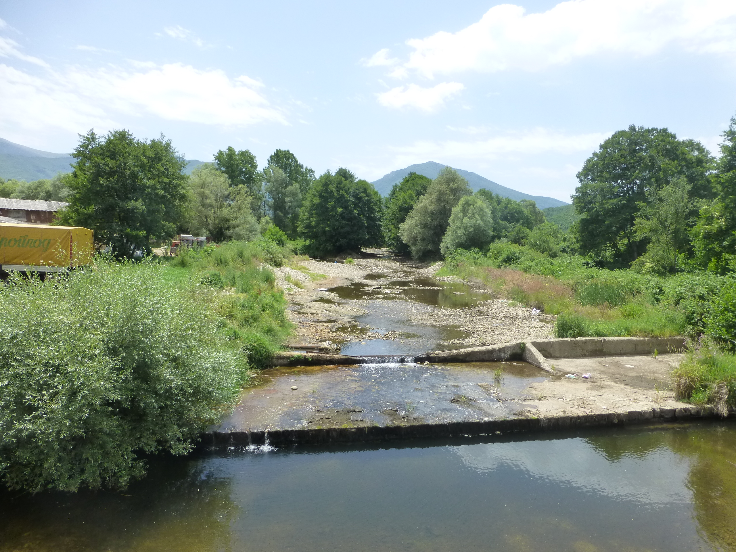 Around Lera Village (near the southern end of Lake Streževo).